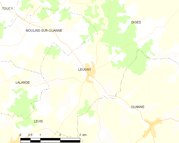 Map of French municipality Leugny